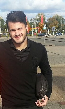 Valeri Kazaisjvili